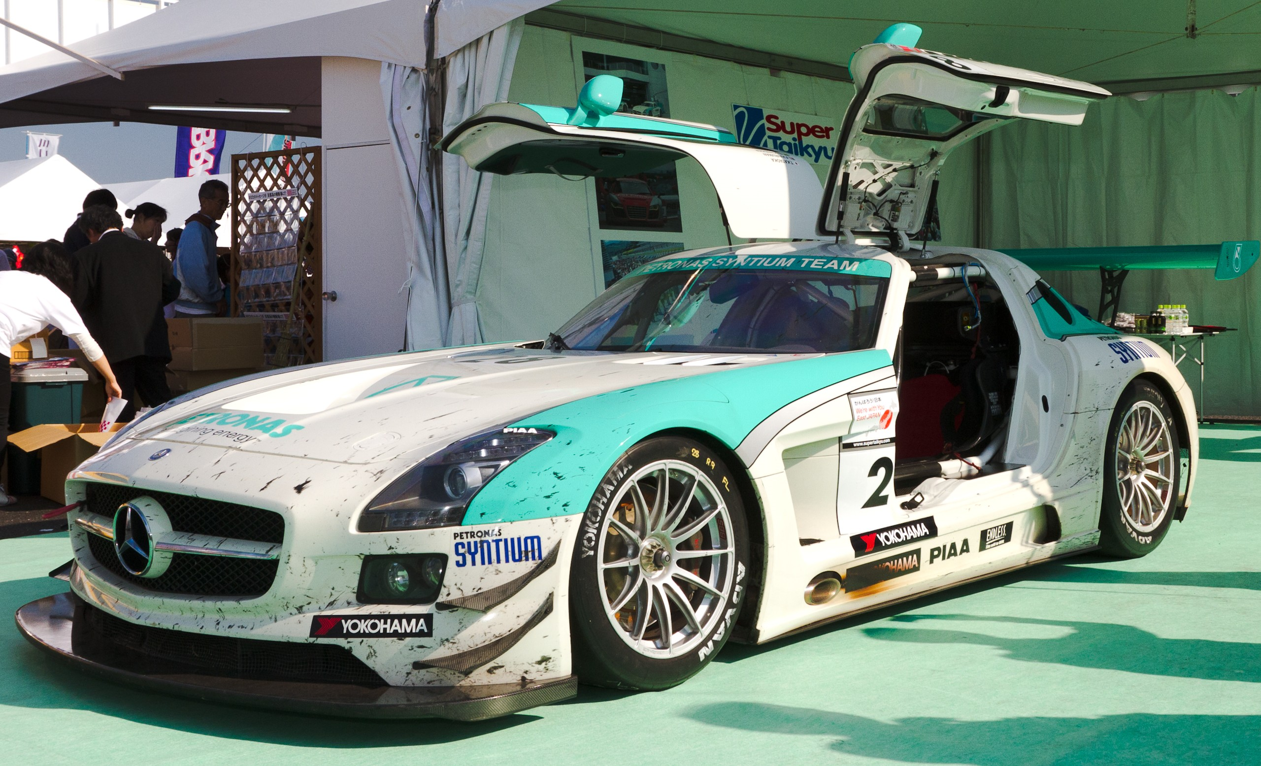 Motorsport Japan 2011: Mercedes-Benz SLS AMG GT3 (for Super Taikyu ST-X class in the 2012 season)